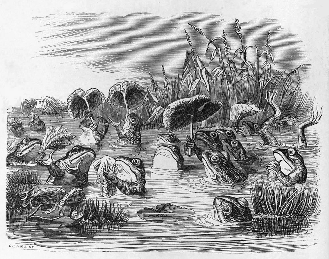 An illustration of La Fontaine's fable Le soleil et les grenouilles by J.J.Grandville from Fables de La Fontaine book VI, Paris 1855